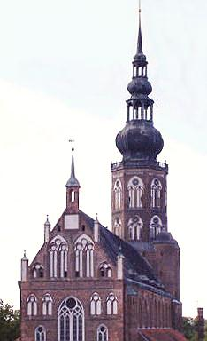 Dom of Greifswald, Germany